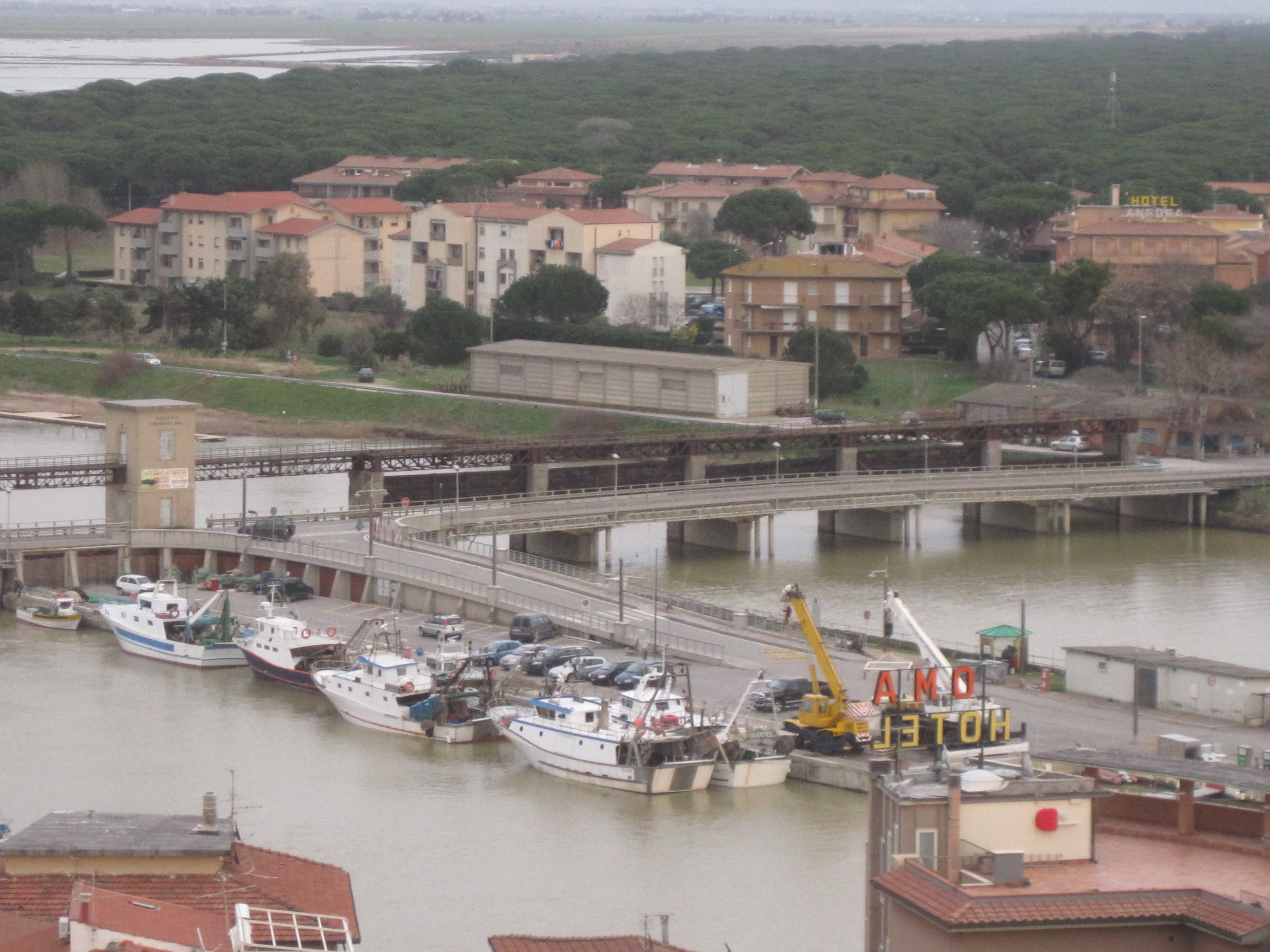 Giorgini Bridge, Castiglione della Pescaia, Grosseto